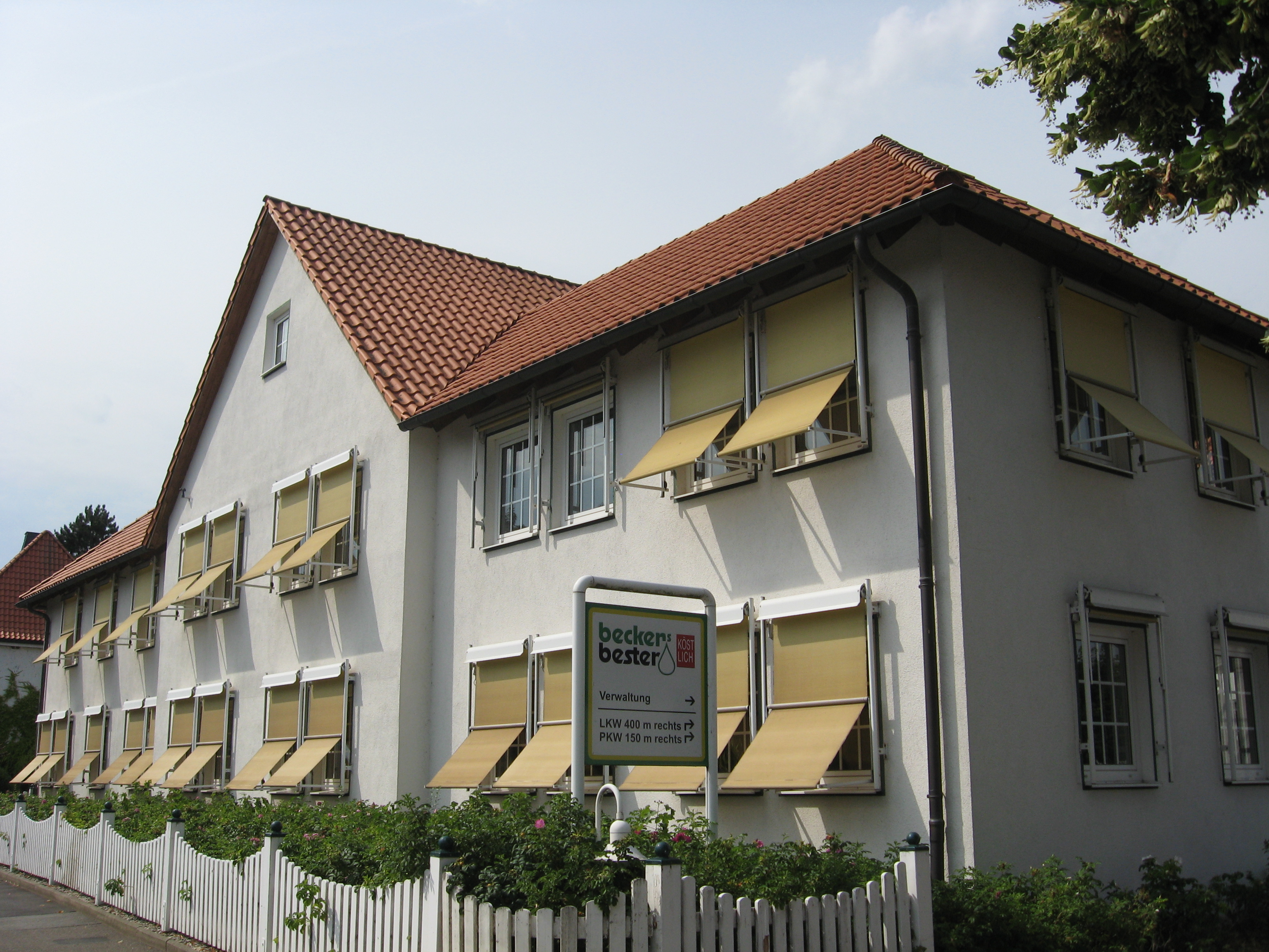 Administration Beckers Bester, Nörten-Hardenberg, Germany check usage